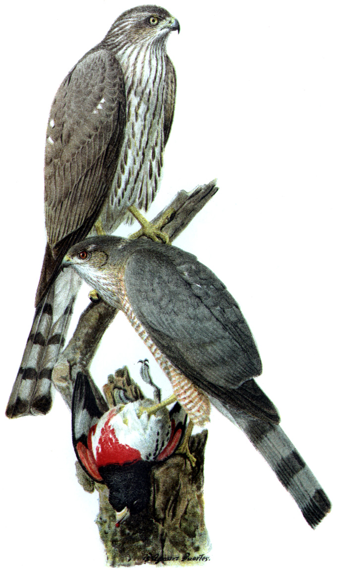 Sharp-shinned Hawk, Accipiter striatus, chromolithograph.